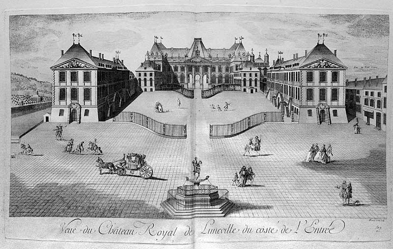 View of the Royal Château de Lunéville from the entrance in the 18th century